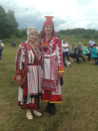 Poet Marizj Kemalj and Natalya Tushnikova. The modern, traditional Erzya clothes that have made themselves. Erzyan Rasken Ozks, Chukaly vill., Bolsheignatovsky district, Mordovia, July 9, 2016.